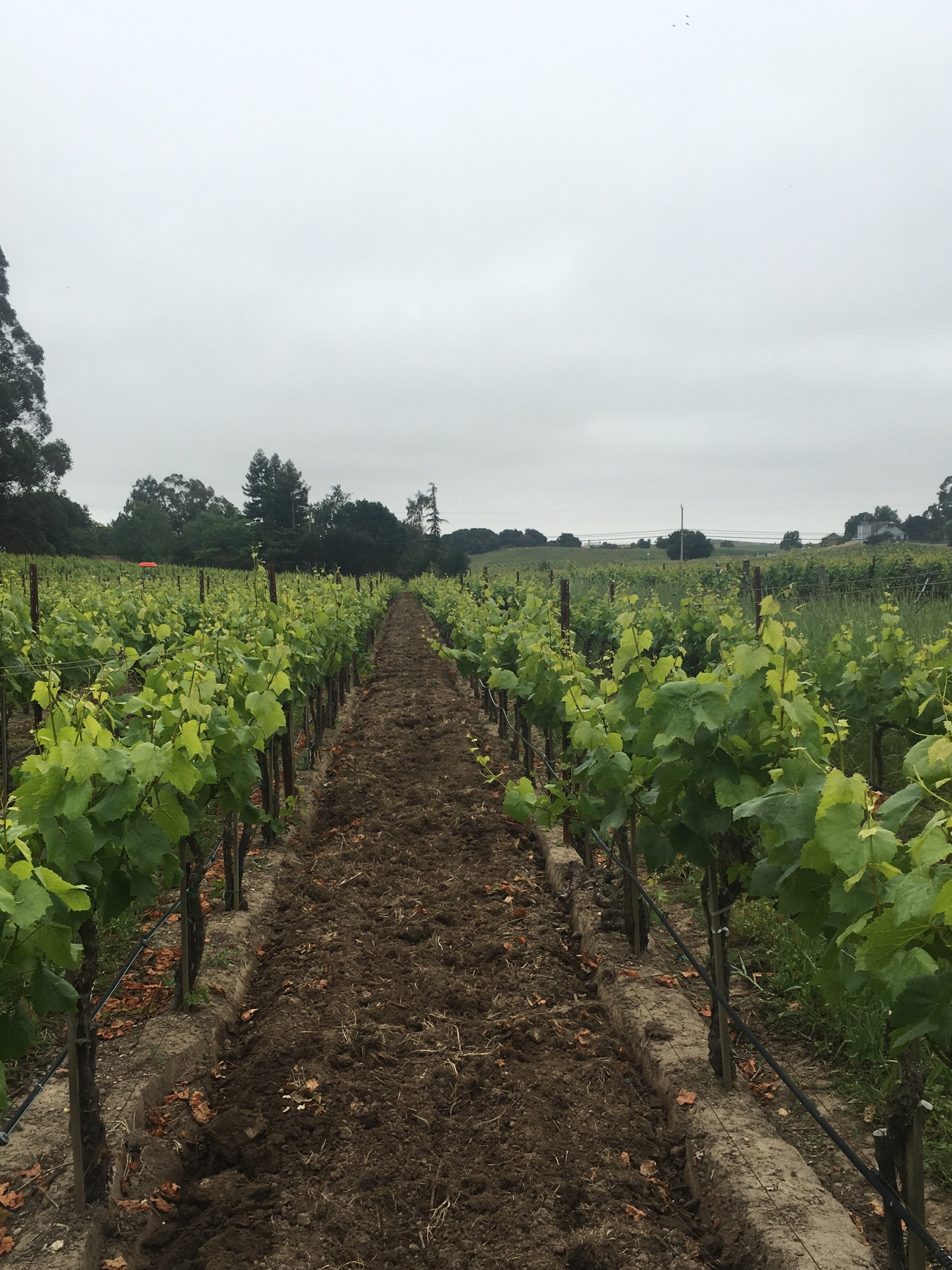 Early morning clouds over the Napa side of the Los Carneros AVA